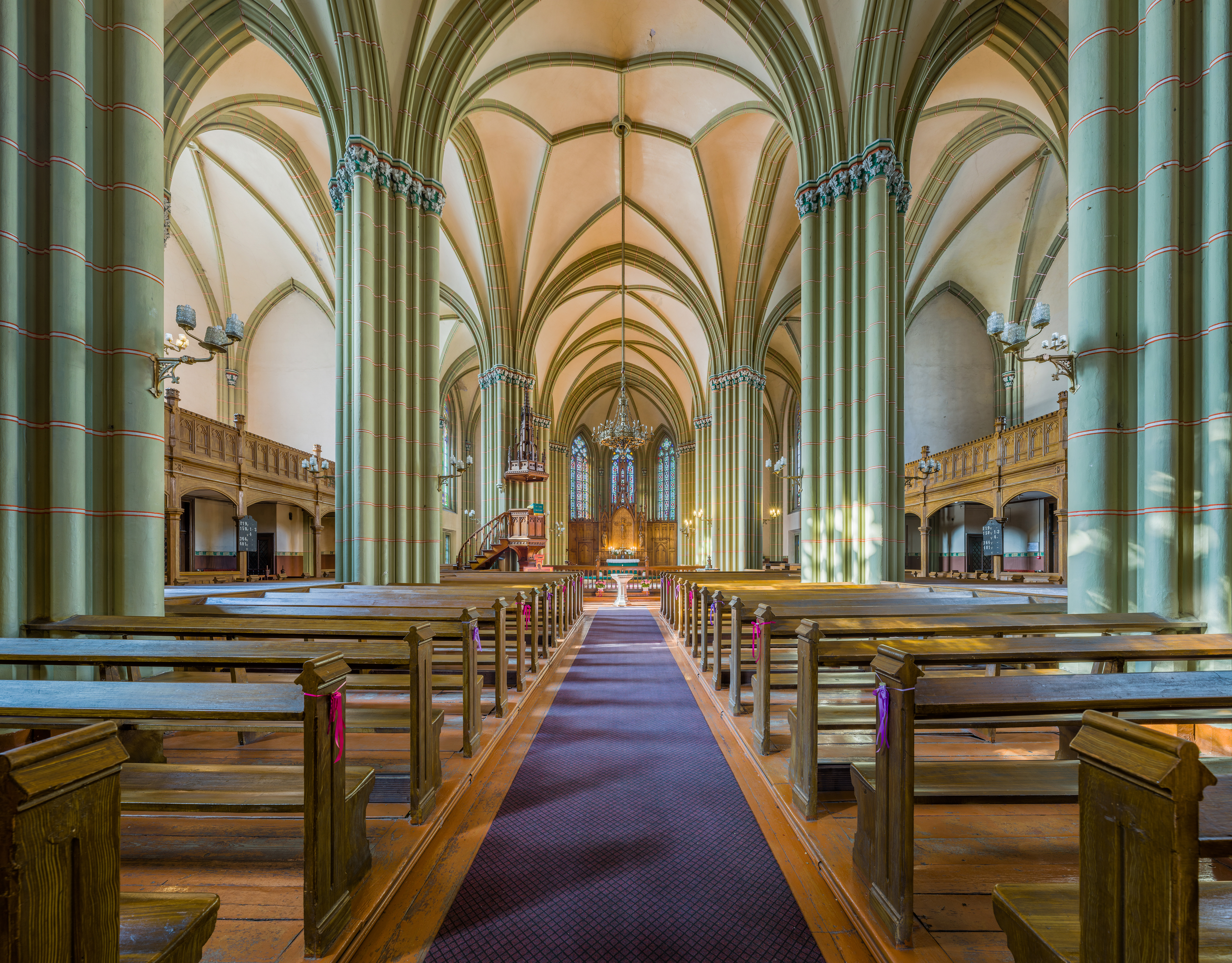 The interior of St. Gertrude Old Church, Riga, Latvia.